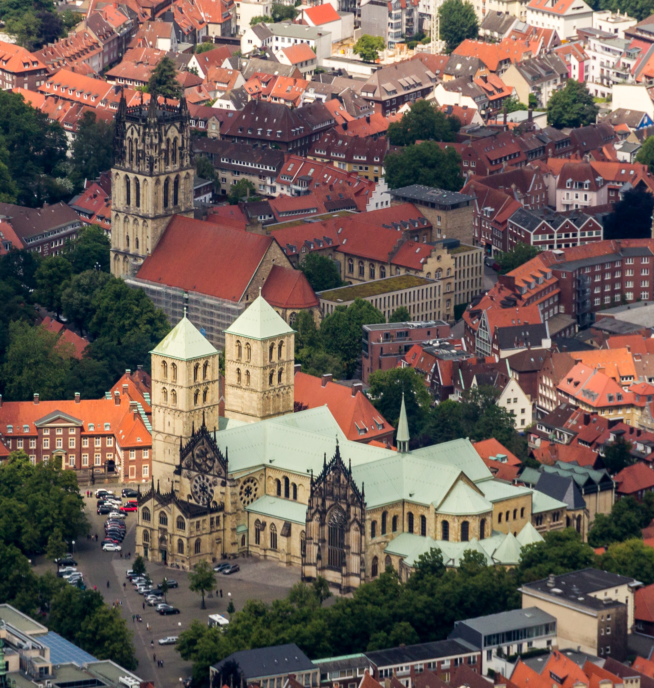 St Paul's Cathedral, Münster, North Rhine-Westphalia, Germany This image shows a heritage building in Germany, located in the North Rhine-Westphalian city Münster.